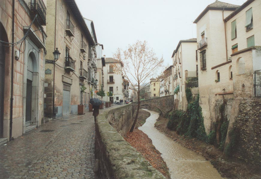 The river Darro, in Granada (Spain)